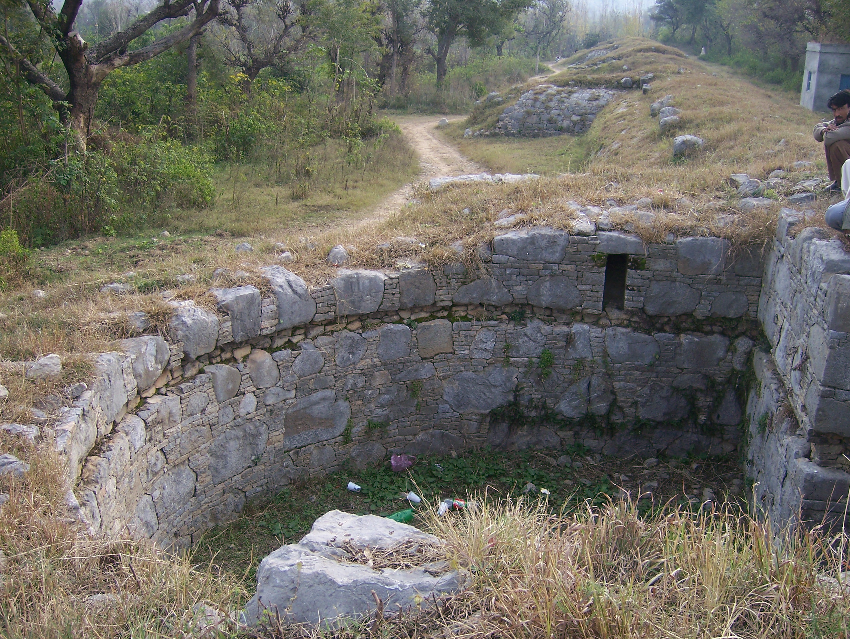 Inside of the bastion in the wall of Sirsukh — the Kushan Empire archaeological site. Located near ancient Taxila — in Punjab Province, Pakistan.